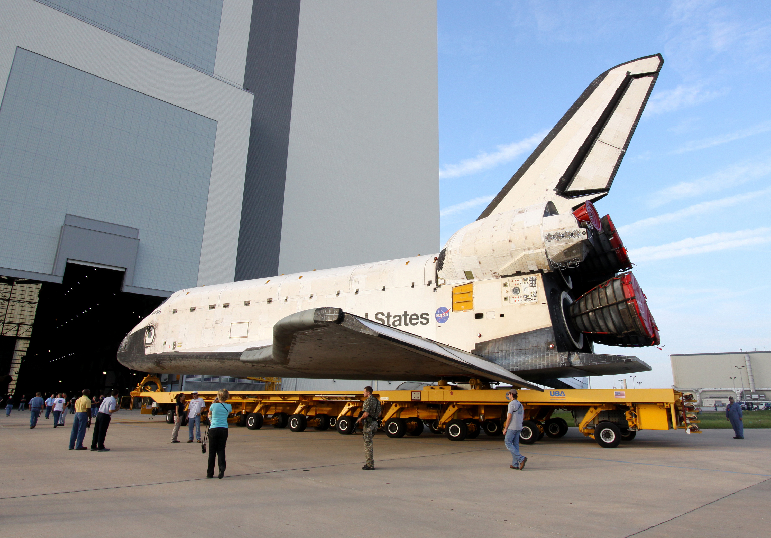 CAPE CANAVERAL, Fla. – At NASA’s Kennedy Space Center in Florida, space shuttle Atlantis approaches the north door of the transfer aisle of the Vehicle Assembly Building. The rollover from its hangar, Orbiter Processing Facility 1, began about 7 a.m. EDT and was complete at 8:25 a.m. when Atlantis was towed into the VAB's transfer aisle. Next, Atlantis will be lifted over a transom and lowered into the VAB's high bay 1, where it will be attached to its external fuel tank and solid rocket boosters. Rollout of the shuttle stack to Kennedy’s Launch Pad 39A, a significant milestone in launch processing activities, is planned for Oct. 13. Liftoff of Atlantis on its STS-129 mission to the International Space Station is targeted for 4:04 p.m. EST during a 10-minute launch window on Nov. 12. For information on the STS-129 mission and crew, visit